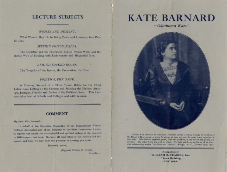 Pamphlet in support of Kate Bernard, an activist and civil servant. The pamphlet describes her work and uses it as an example of what women can do in politics.